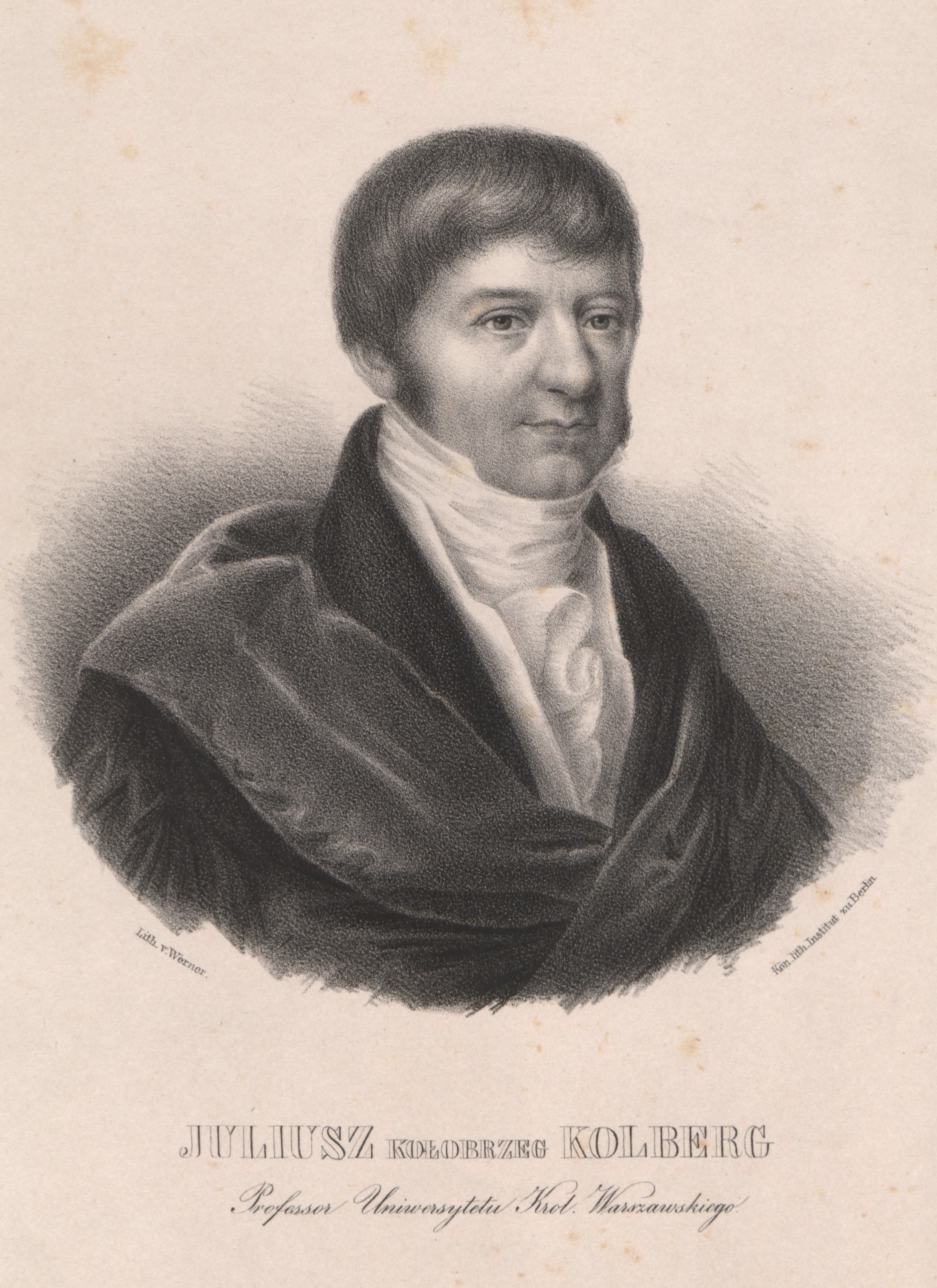 Juliusz Kolberg, [1801-1850]